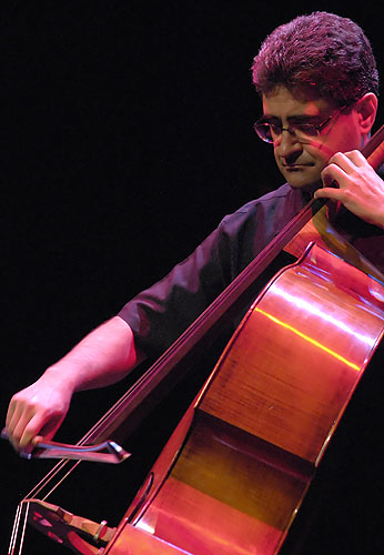 Jazz double bass player Renaud Garcia-Fons